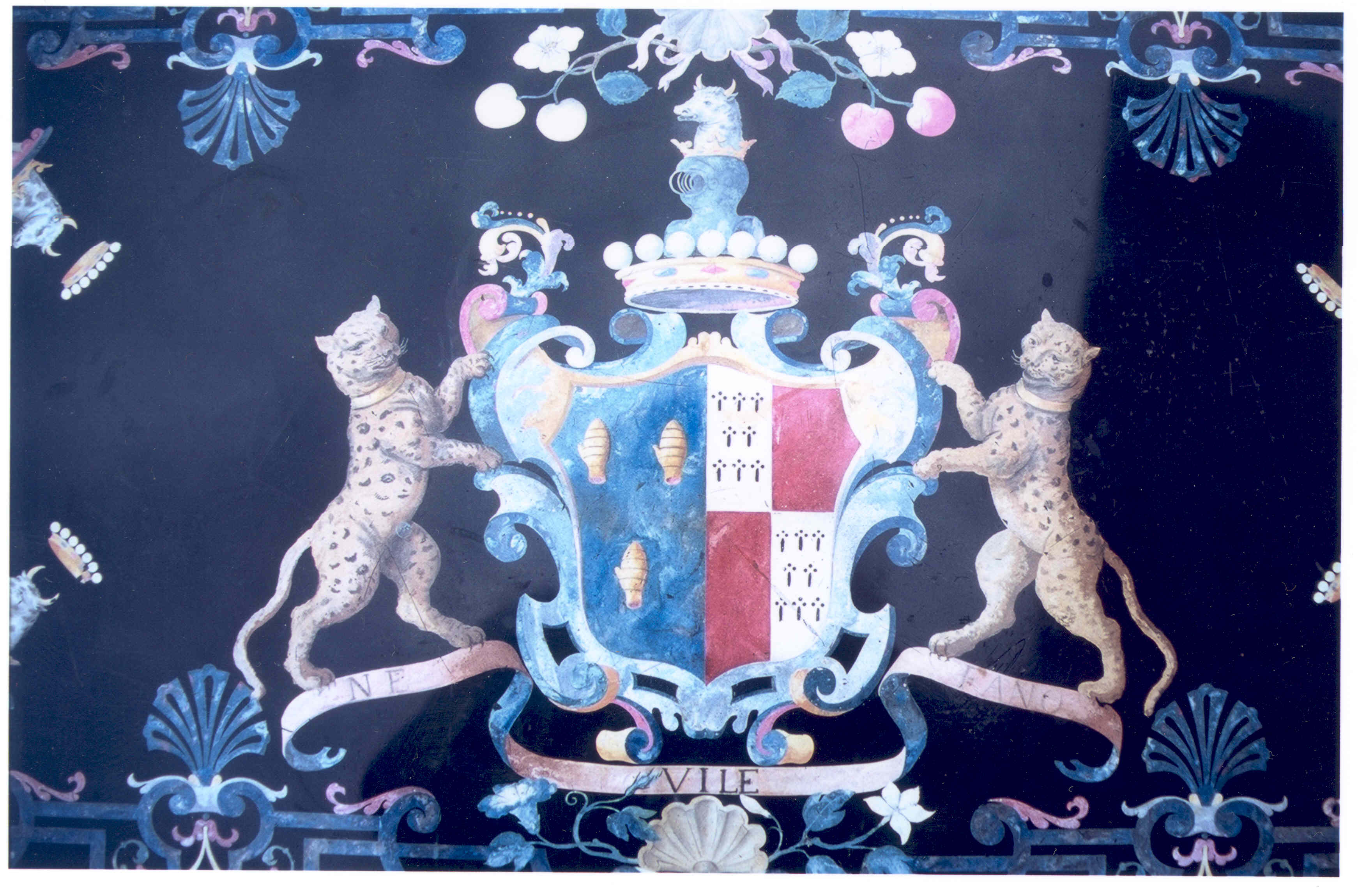 scan of photo (April 2006, R. de Salis) of a Florentine scagliola table top (40 x 20 inches), one of a pair made, c1736-7, for Mary the wife of the first Viscount Fane, showing arms of Fane impalling Stanhope, for the aforesaid Charles Fane (or ffane) and his wife Mary, daughter of Hon. Alexander Stanhope, FRS, and sister of James Stanhope. Currently, 2006-, on loan to the Ashmolean Museum, Oxford.Rodolph 12:00, 9 June 2007 (UTC)